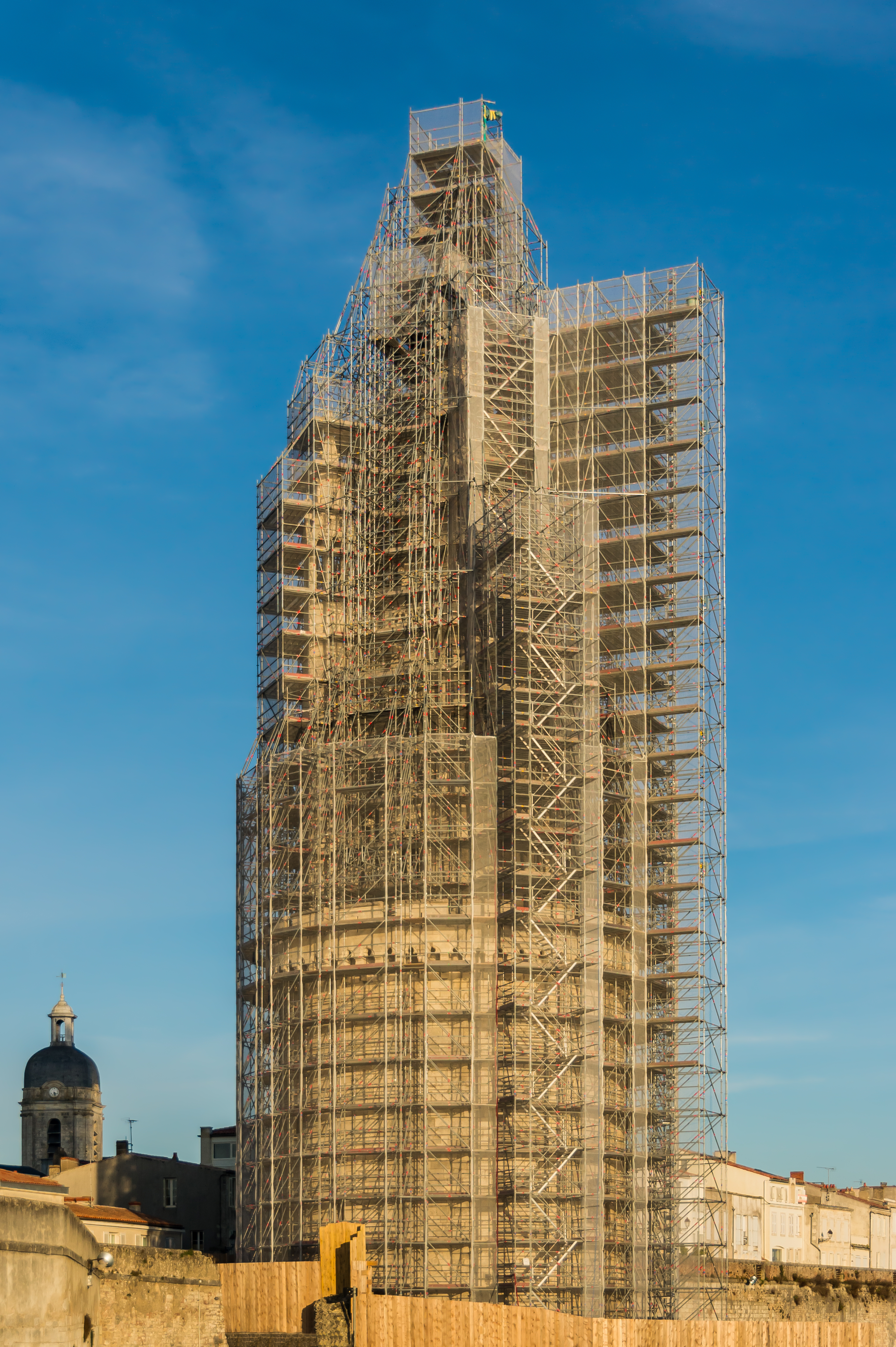 The Tour de la Lanterne in La Rochelle, fully under scaffolding. January 1, 2015.